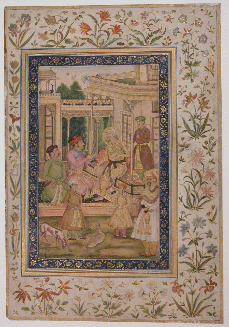 Akbar Visited by Jahangir and Daniyal Object Name: Album leaf Date: 19th century Geography: India Medium: Gouache on paper Dimensions: H. 14 in. (35.6 cm) W. 9 1/2 in. (24.1 cm) Classification: Codices Credit Line: Gift of Alexander Smith Cochran, 1913 Accession Number: 13.228.41 This artwork is not on display